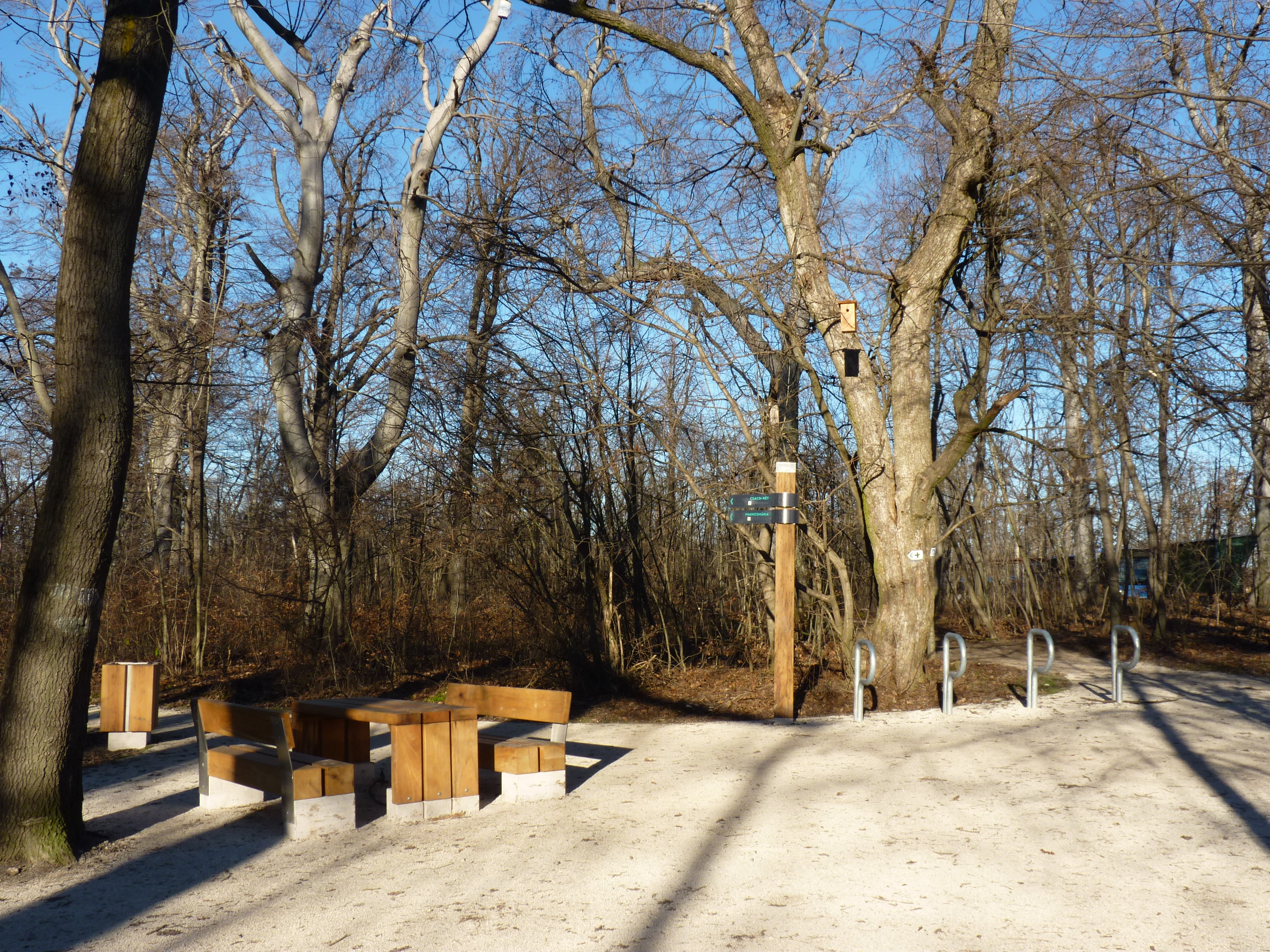 Normafa resting place